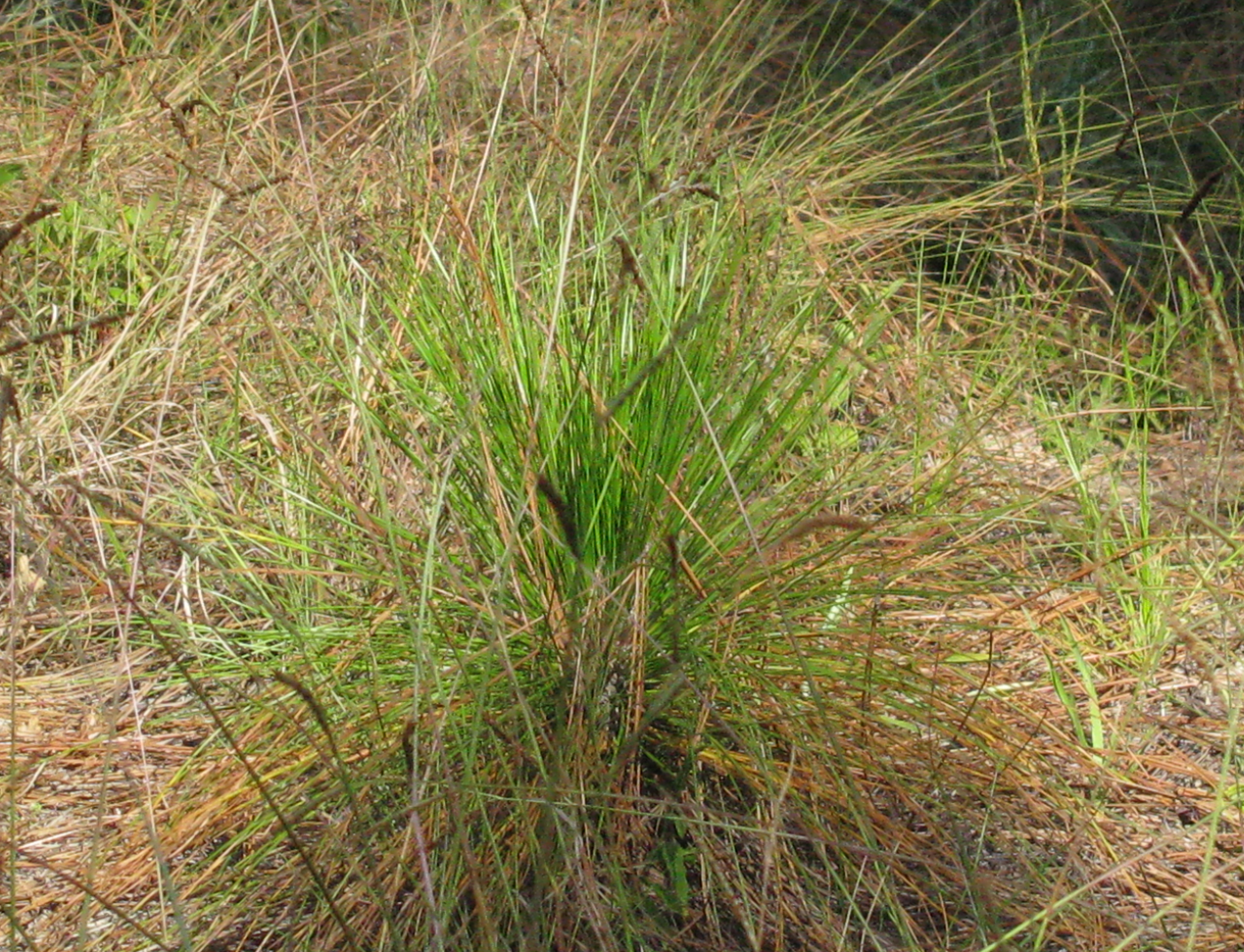 Pinus palustris (Longleaf Pine) seedling in grass-stage approx 5-7 years old, along the Flint River in Georgia.